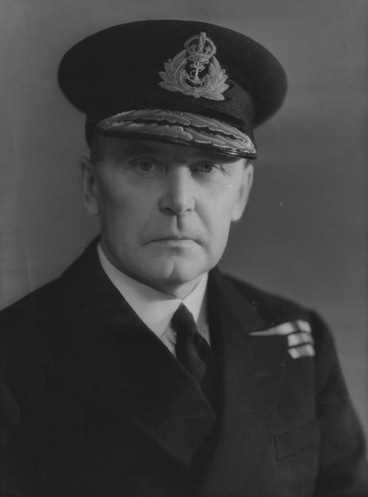 Acting-Admiral Sir Tom Phillips KCB 1888-1941 KIA